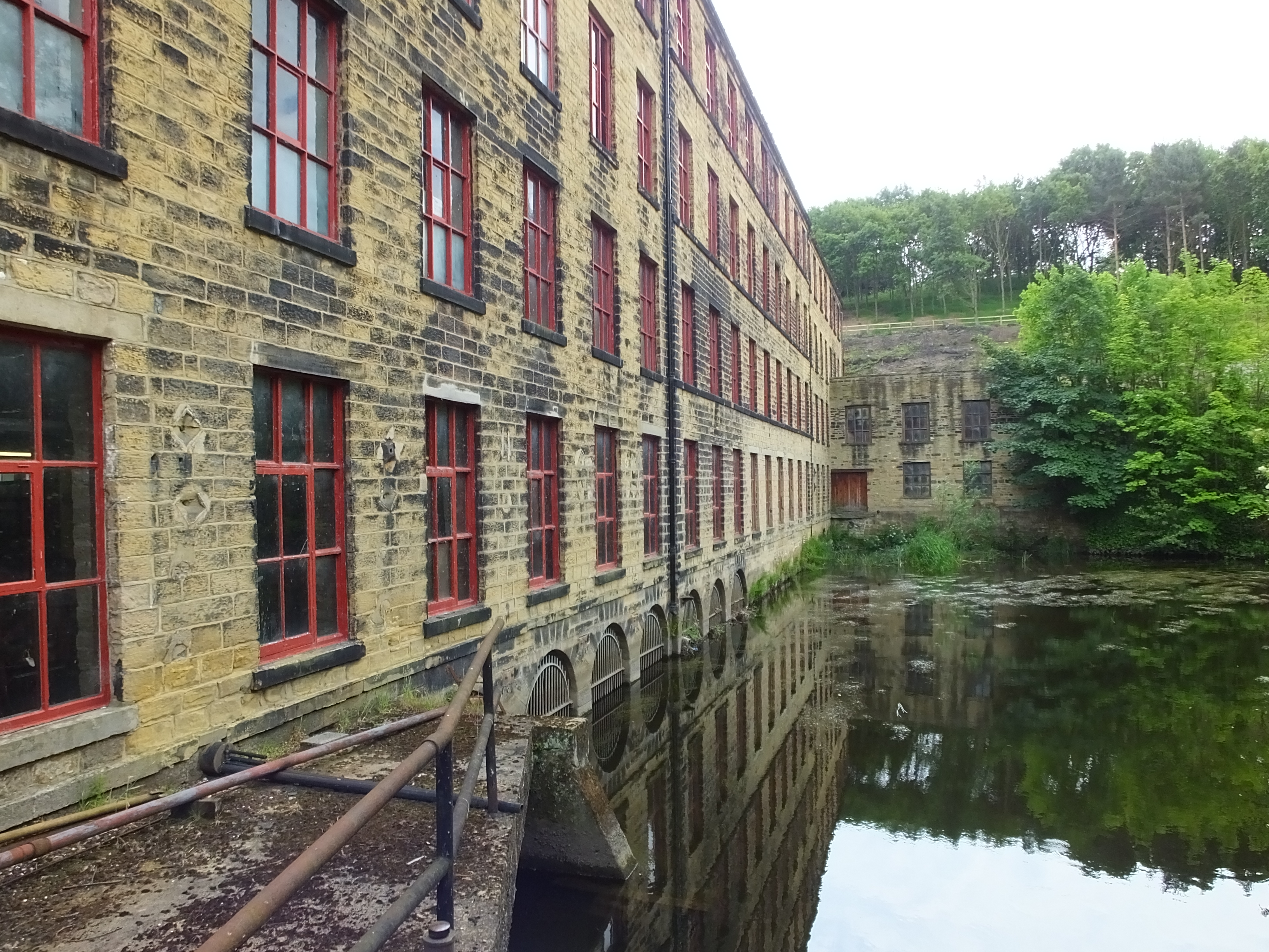 The Leeds Industrial Museum at Armley Mills is on the River Aire and fronts onto the Leeds and Liverpool Canal. When built in 1805 it was the largest woollen mill in the world with 18 fulling stocks and 50 looms. It contains a collection of textile machines.